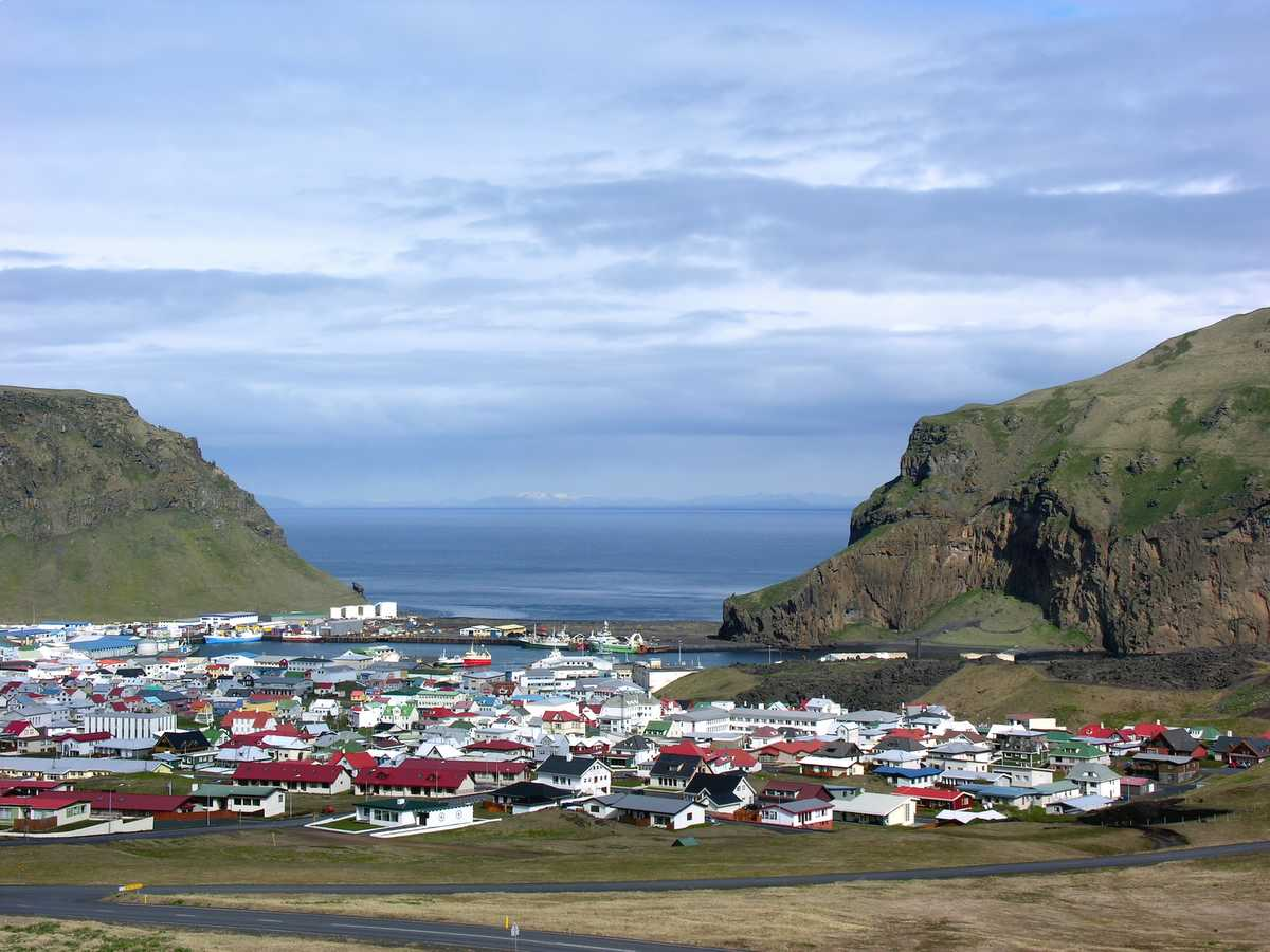 Iceland, Heimaey